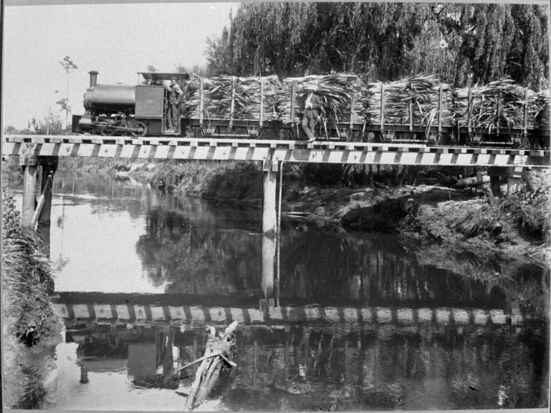 3ft gauge tramway with a small five ton steam locomotive delivered by Bagnall and Co in England in 1907. This File has been scanned by Palmerston North City Libraries.